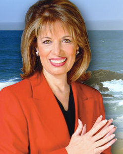 Jackie Speier, U.S. Representative for California's 14th congressional district, serving in Congress since 2008.